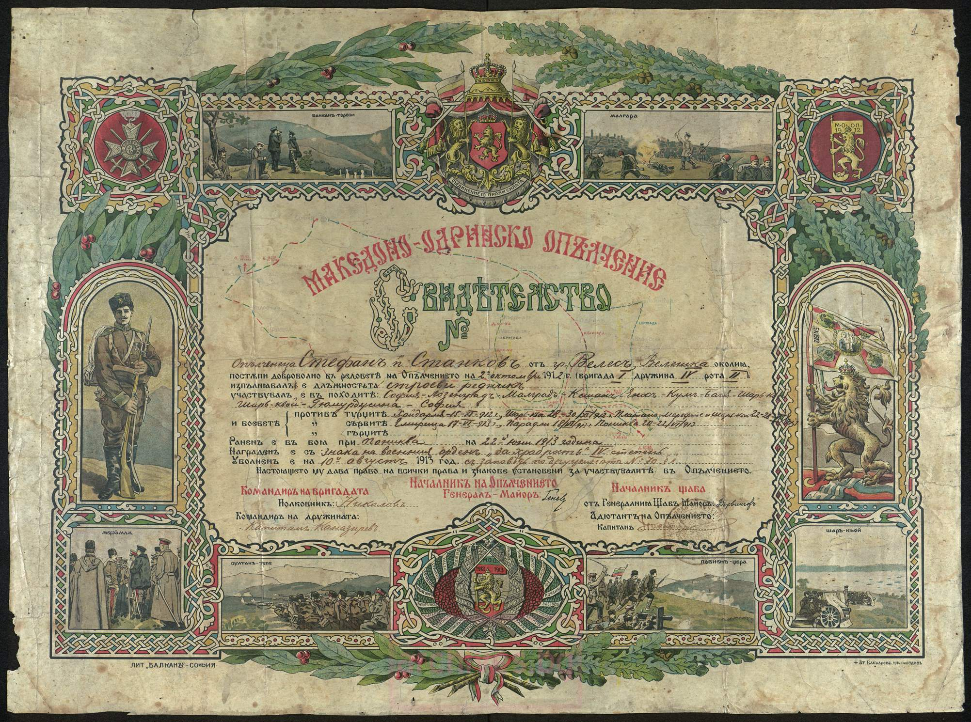 Certificate for service in the Macedonian-Adrianopolitan Volunteer Corps of Stefan Stankov from the town of Veles.